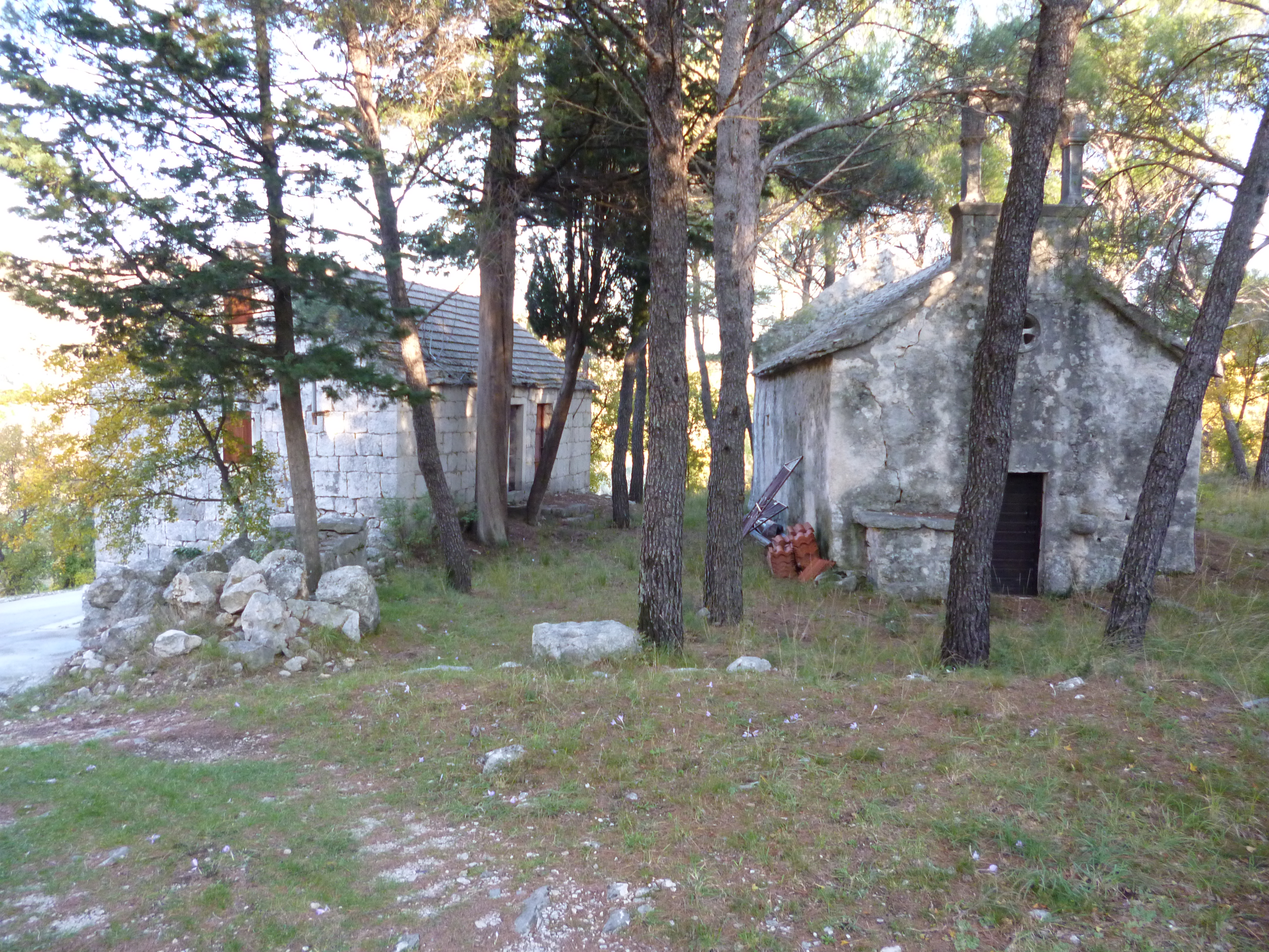 The old church and parish house